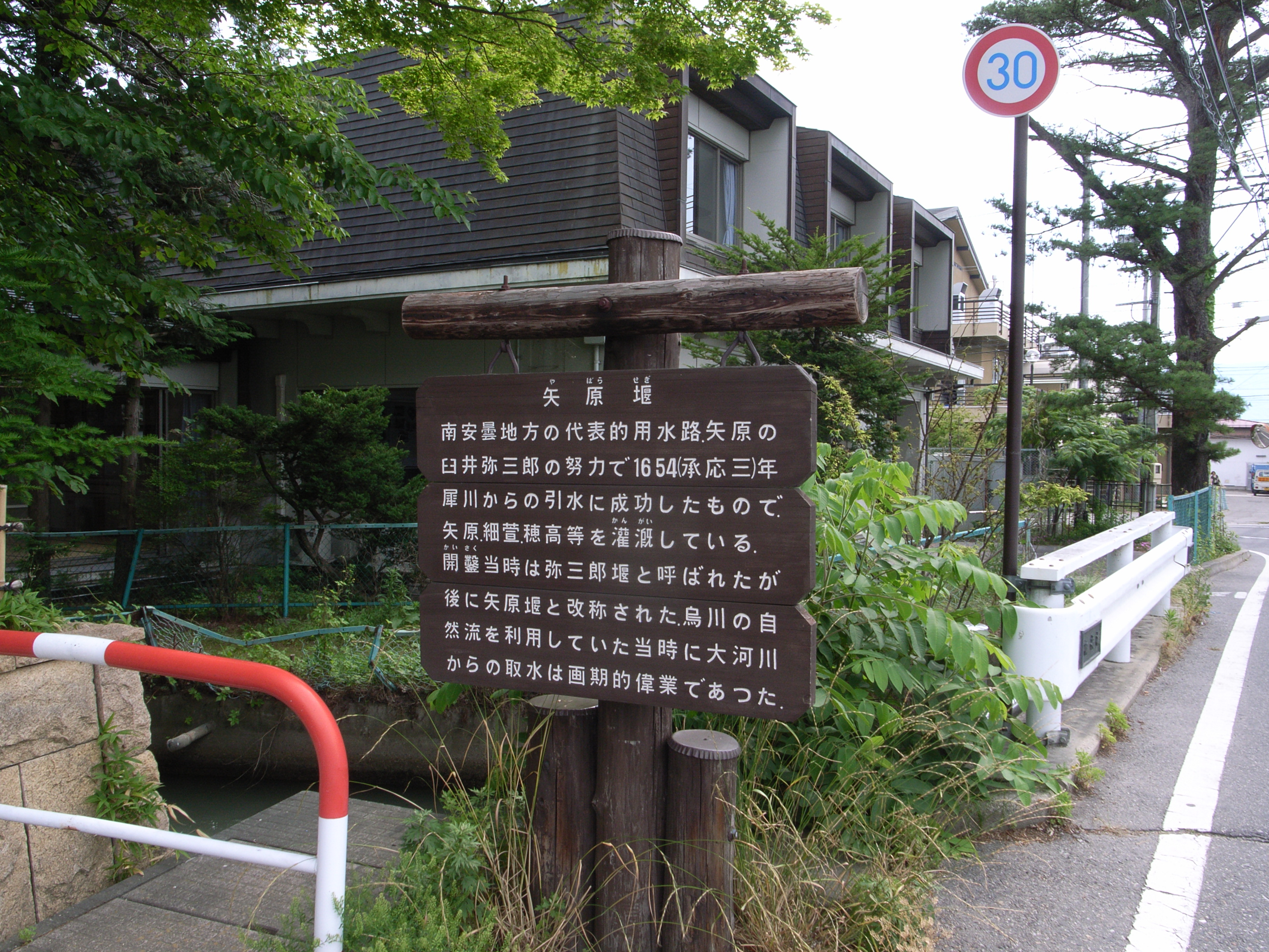 "Yabara Segi", or "Yabara Canal" in Azumino, Nagano, Japan.